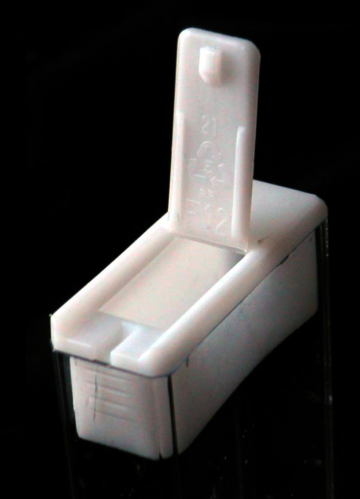 Empty Tic Tacs box. The bottom of the box is made from polystyrene. Its polypropylene lid is open, displaying the resin identification code (5) and a living hinge.